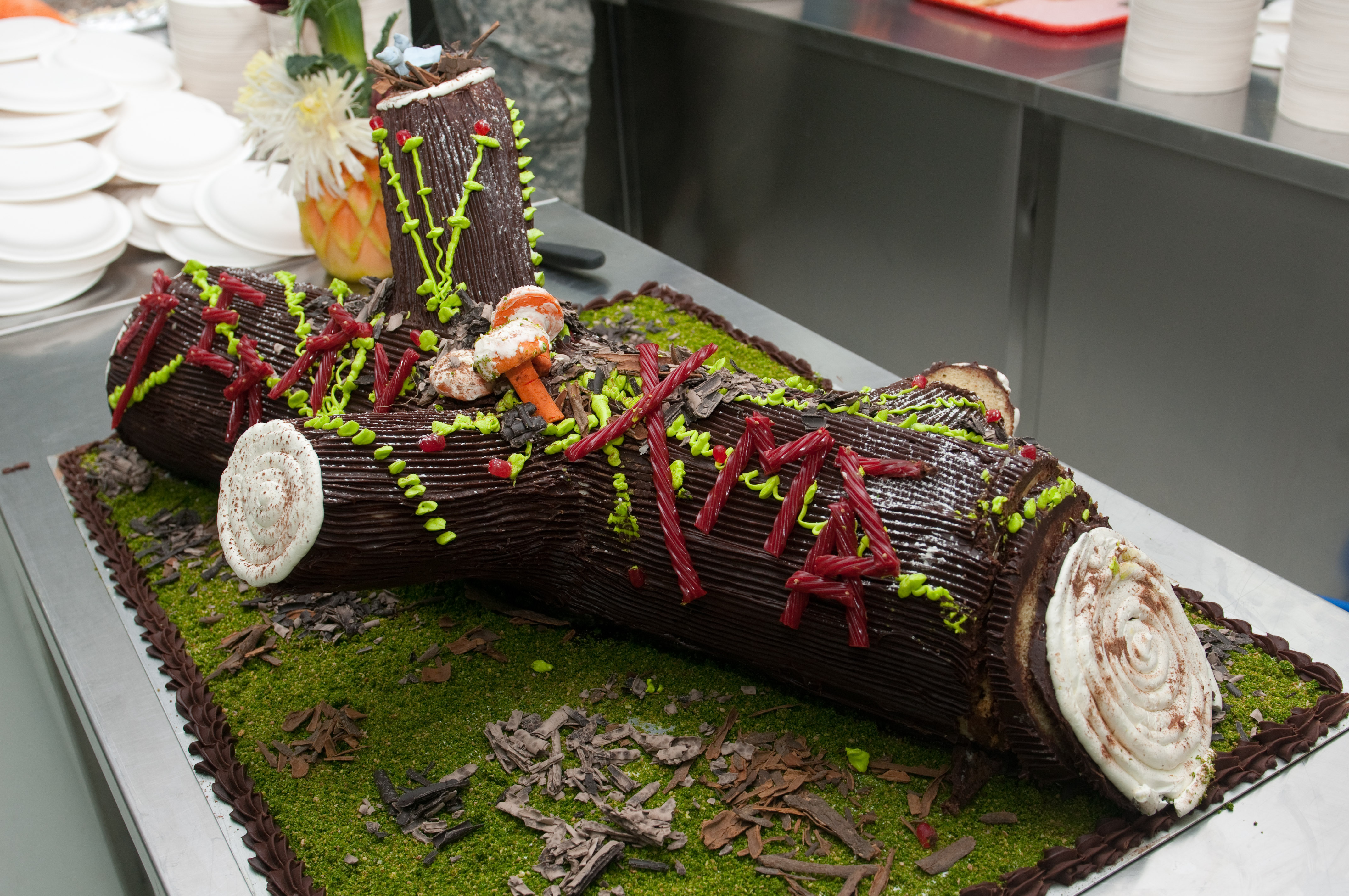 A chocolate-covered yule log cake decorates a table at Independence Hall Dining Facility on Kandahar Airfield, Afghanistan, for Christmas dinner, Dec. 25. Unit: 4th Infantry Division Sustainment Brigade DVIDS Tags: soldier; Department of Defense; NATO; DoD; Kandahar Air Field; CO; GWOT; kandahar airfield; OEF; 46Q; Kandahar province; Fort Carson; HHC; KAF; Global War on Terrorism; christmas dinner; IMT; Military; Afghanistan; Combat Camera; Comcam; Headquarters and Headquarters Company; U.S. Army; International Security Assistance Force; USA; Colorado; Colo.; Combined Joint Task Force; ISAF; Operation Enduring Freedom; 43rd Sustainment Brigade; CJTF; 43D BSTB; 43D SB; 43D STB; 43rd BSTB; 43rd Brigade Special Troops Battalion; 43rd SB; 43rd STB; CJOA; Combined Joint Operations Area; North Atlantic Treaty Organization; The Mountain Post; This We'll Defend; 25V; Combat documentation specialist; Nikon D300s; Public affairs specialist; Public domain; Released; SSG Ian Terry; Staff Sgt. Ian M. Terry; Independence Hall Dining Facility